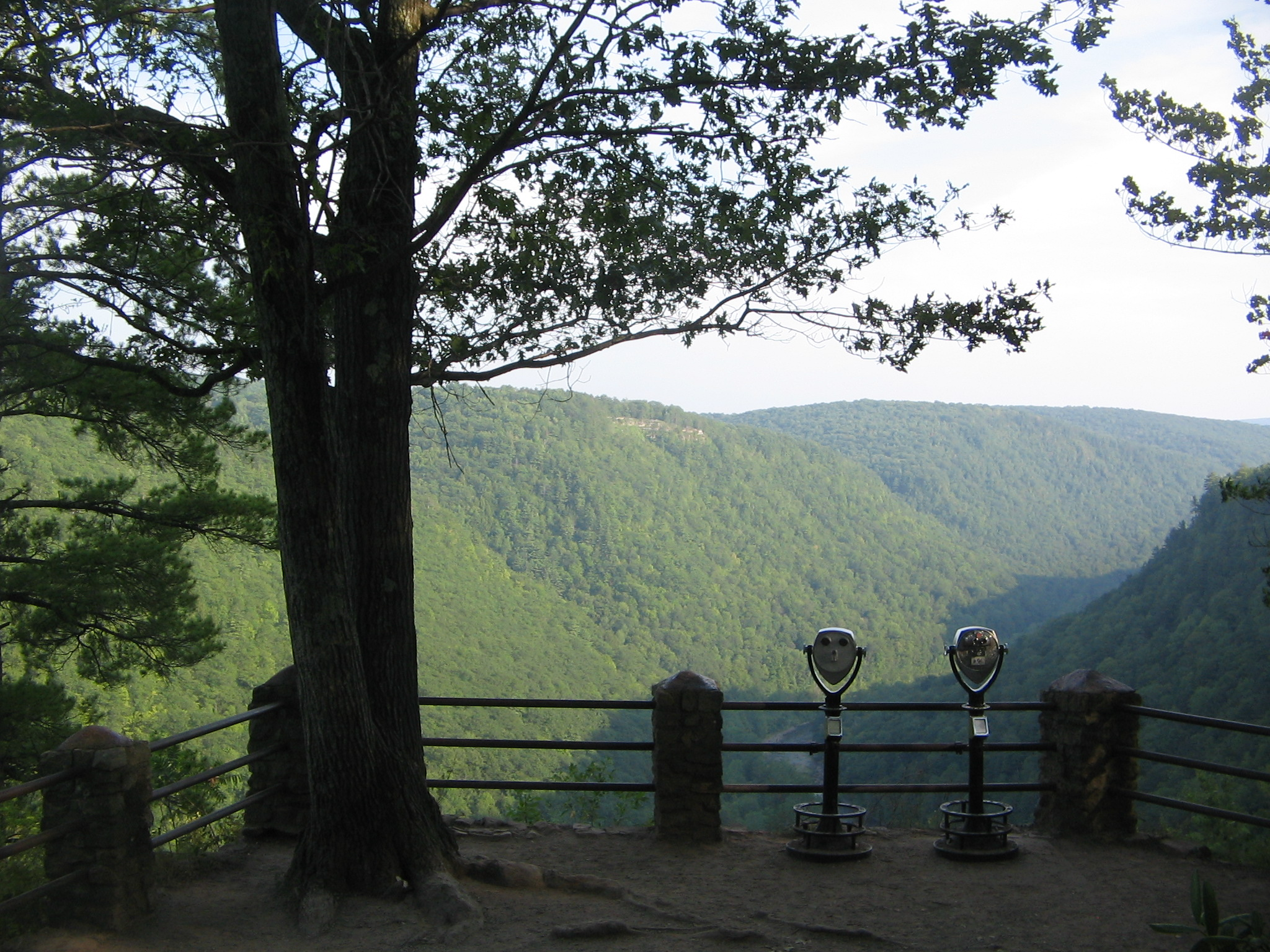 CCC-built overlook, looking south to the Pine Creek Gorge in Colton Point State Park in Shippen Township, Tioga County, Pennsylvania, United States. This is the second overlook after entering the park. The white rock outcrop on the other side of the gorge is the main overlook in Leonard Harrison State Park.